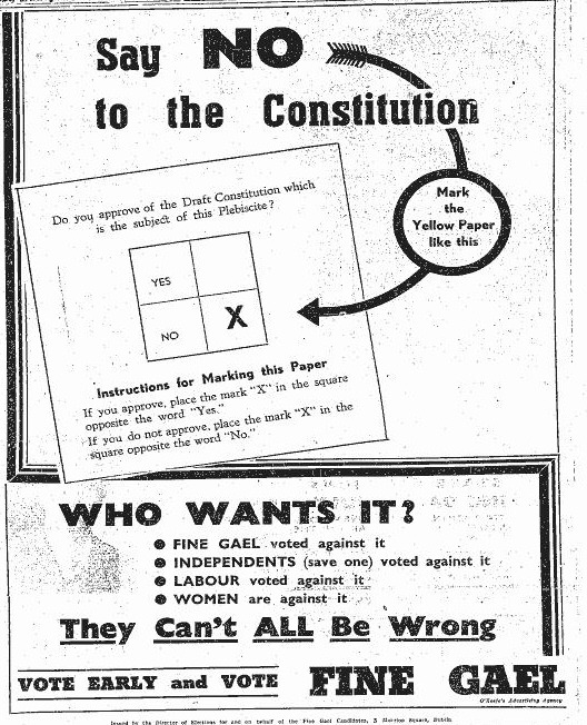 A Fine Gael poster used in the Irish constitutional referendum of 1937 advocating a no vote